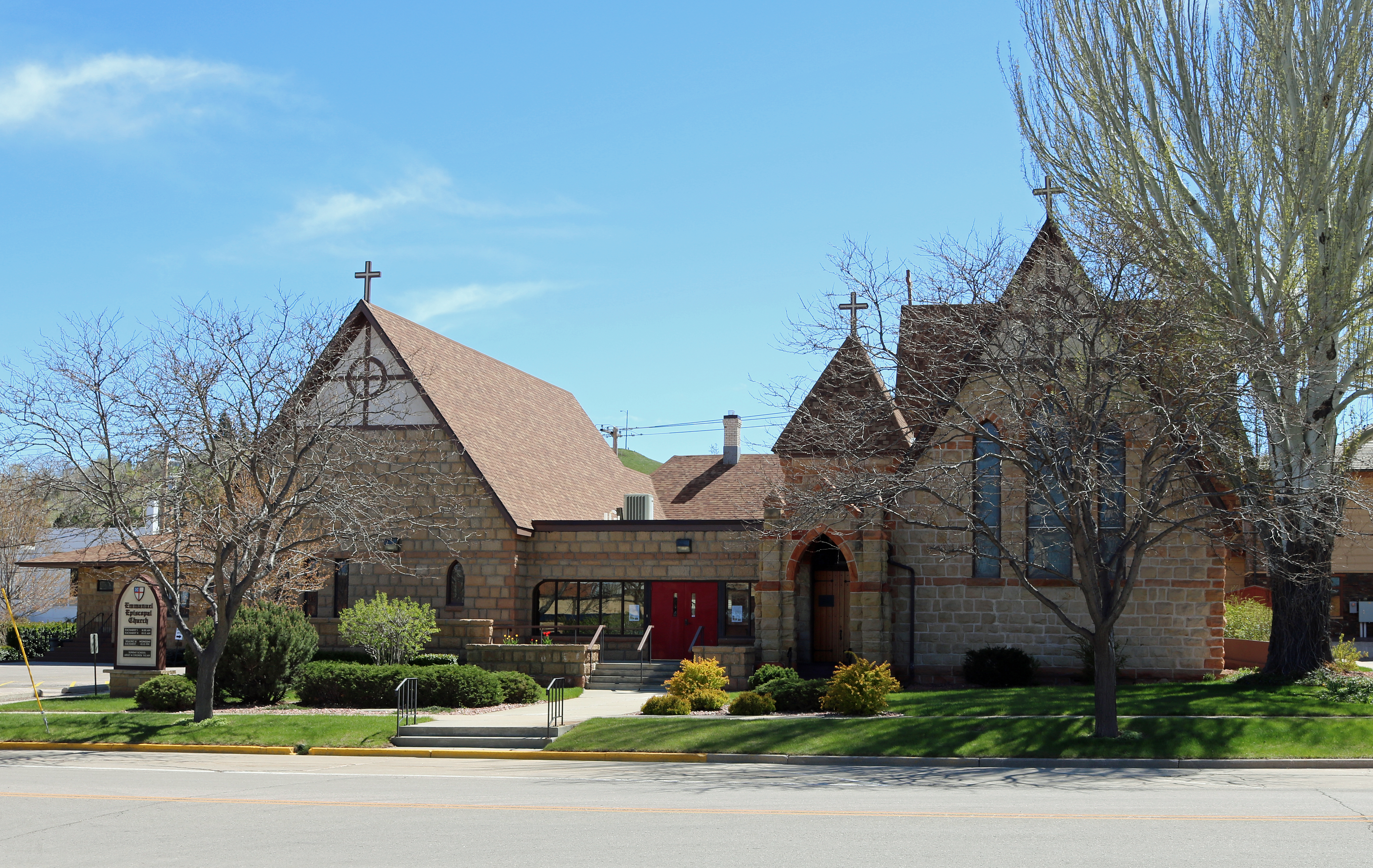 The Emmanuel Episcopal Church, located at 717 Quincy Street in Rapid City, South Dakota. The property is listed on the National Register of Historic Places.